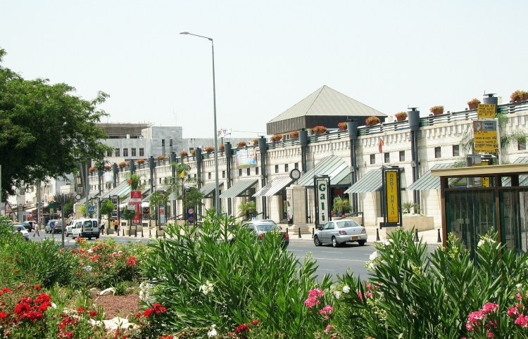 Photo by Gila Brand. This is my own work. Kanyon Hadar shopping mall on Pierre Koenig Street, Talpiot, July 2007